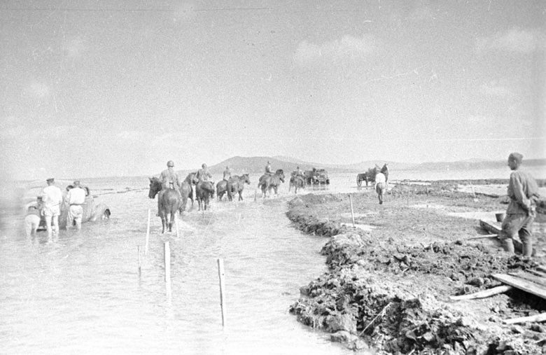 Battle of Lake Khasan-Soviet troops crossing through flooded areas to the bridgehead